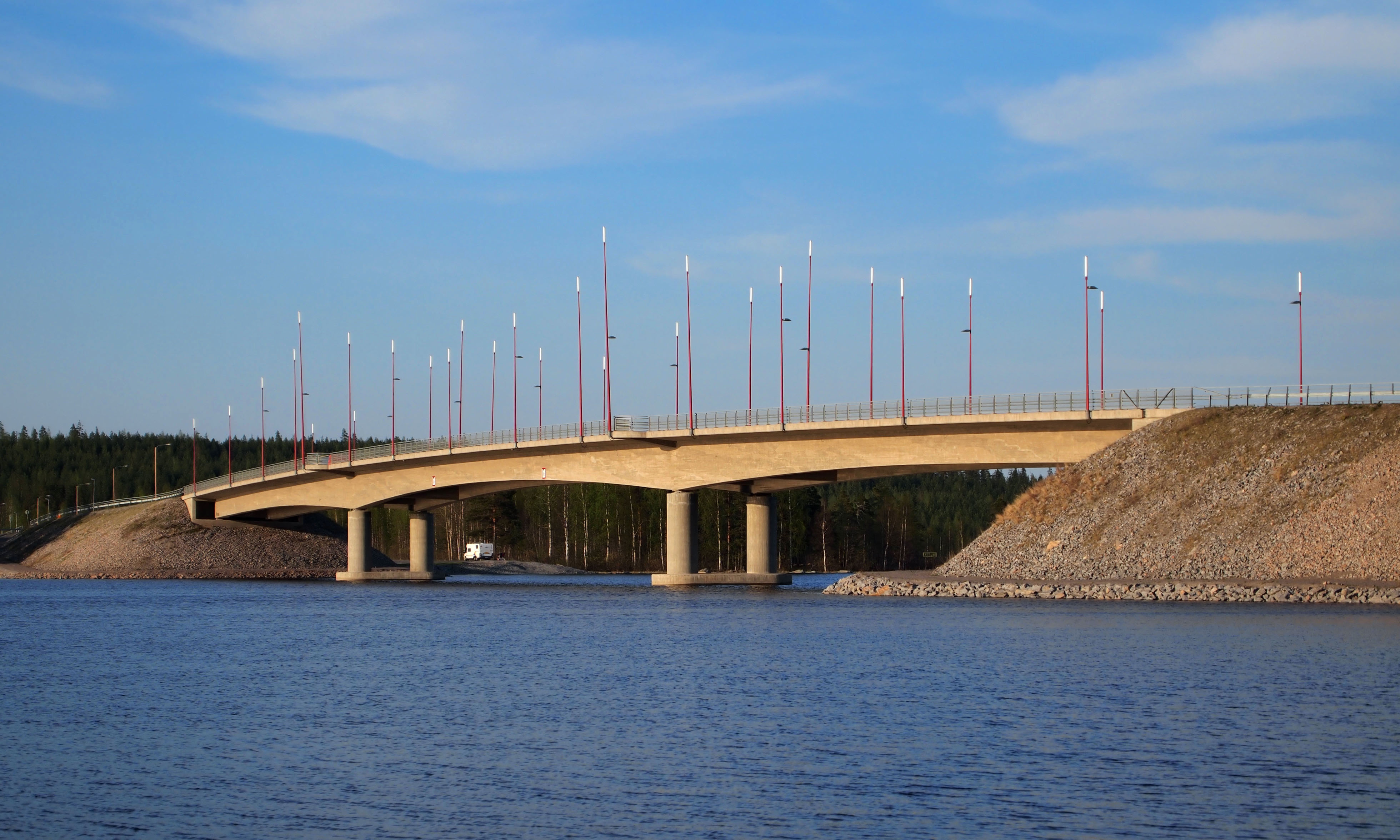 Hännilänsalmi Bridge on the highway 4 in Viitasaari, Finland. The bridge crosses the lake Keitele.